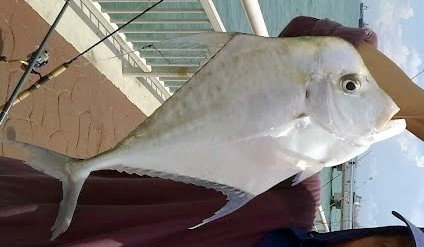 Diamond trevally from Broome, WA